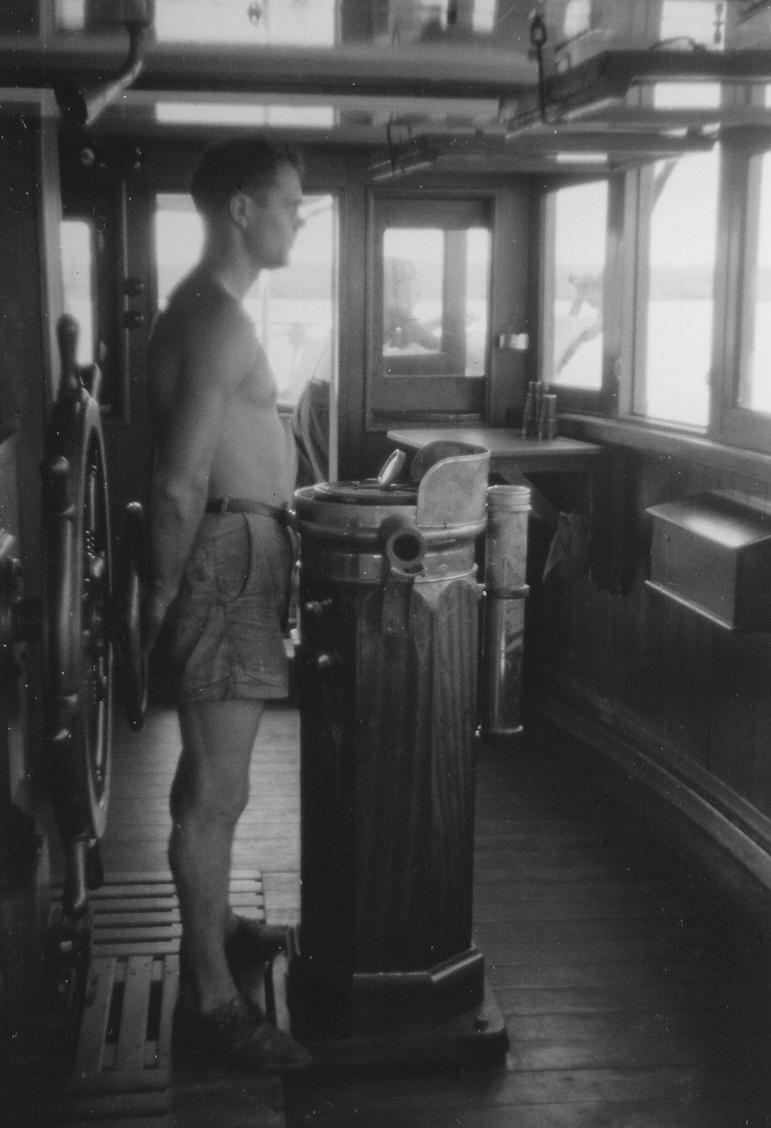 Sailor AB as helmsman on the cargo Vessel Elfriede on the Saloum River up to Kaolak, West Africa in 1956